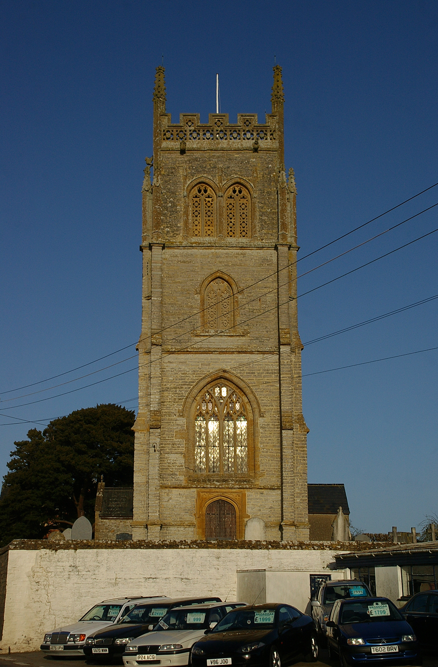 The Church of St Bartholomew at East Lyng, Somerset.